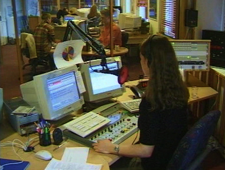 Original studio of the Norwegian Broadcasting NRK radio channel Alltid Nyheter (Non Stop News)